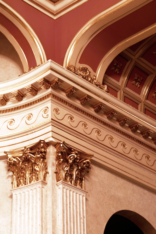 Berlin, Berlin State Opera, detail of interior